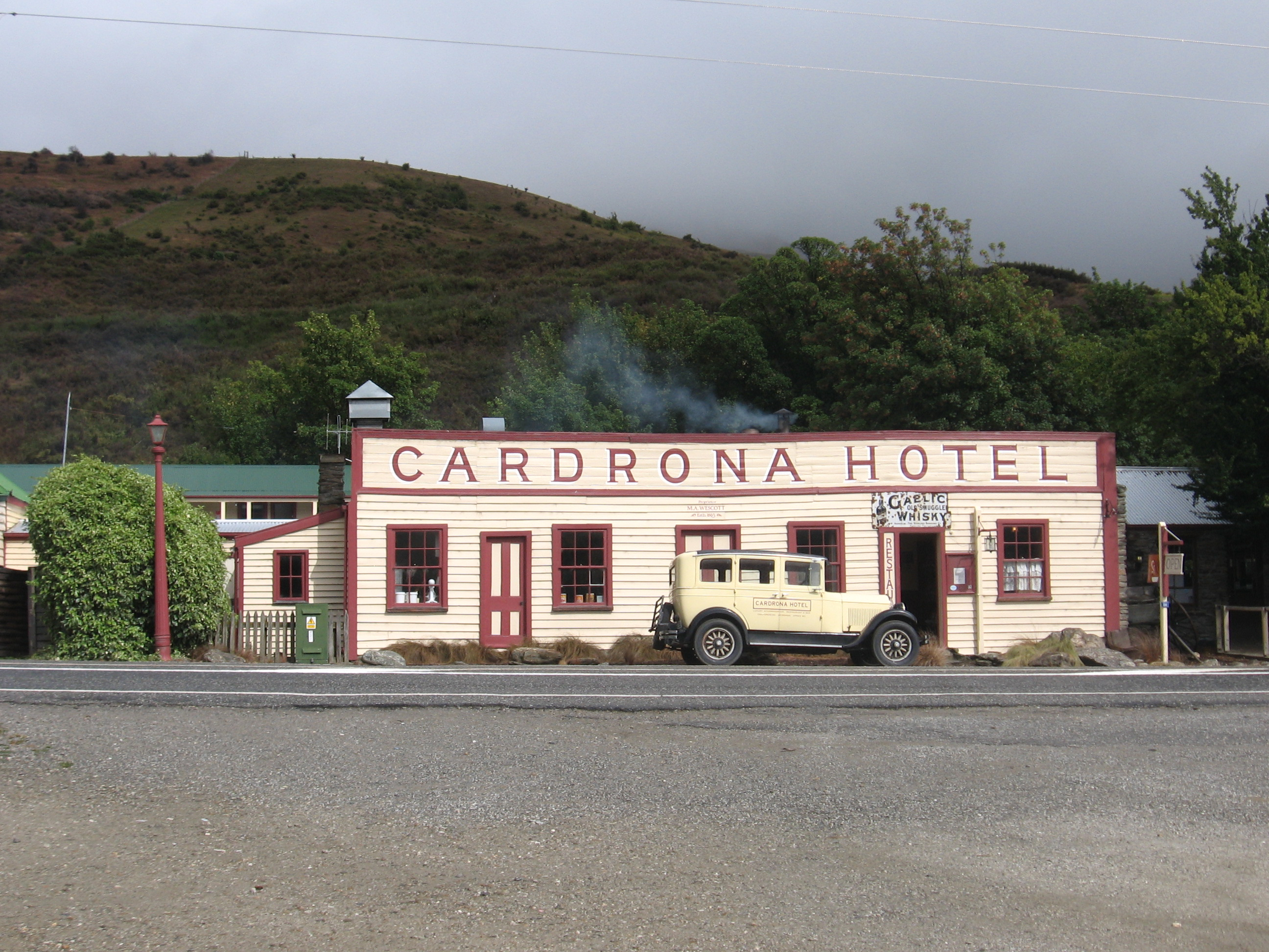 Cardrona Hotel (est. 1863), Wanaka, NZ